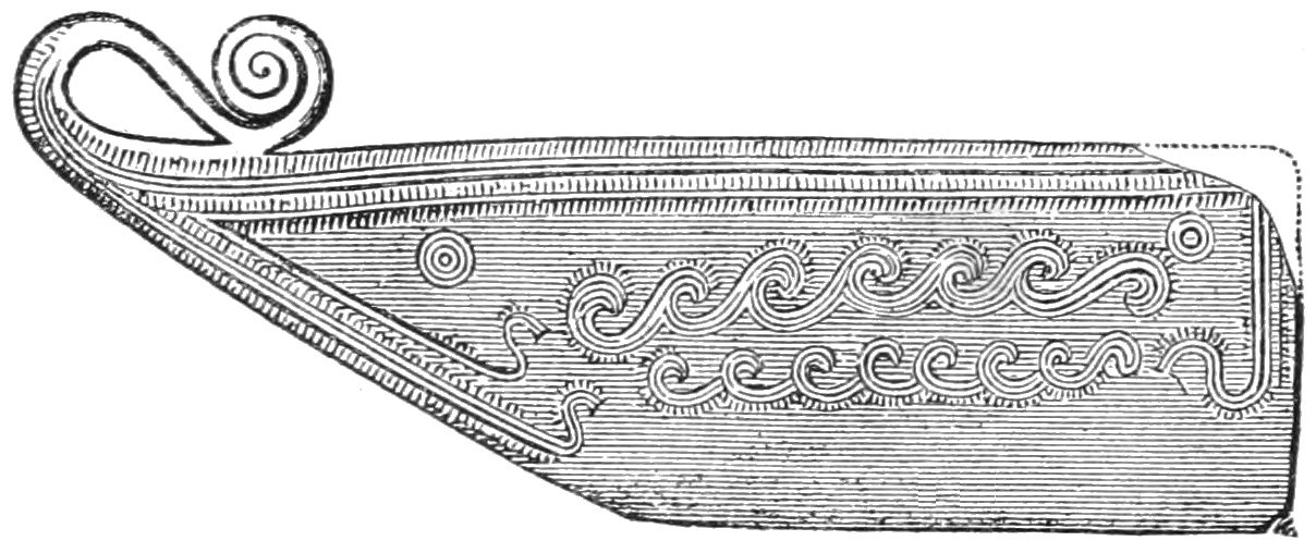 Bronze razor from Kabusa, Stora Köpinge parish, Ystad municipality, Skåne, Sweden